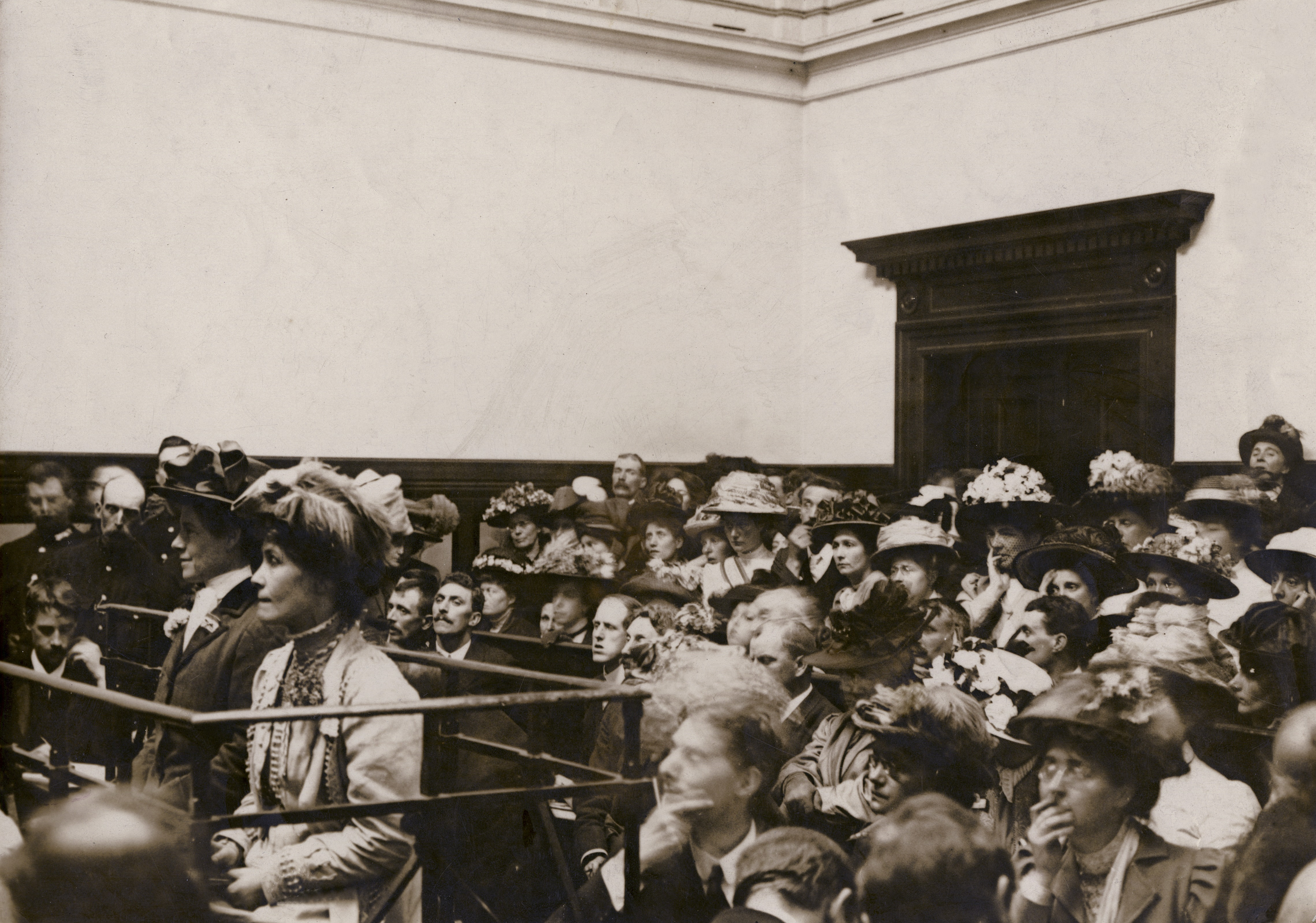 7JCC/O/02/059 Photograph, printed, paper, monochrome, general view of a crowded courtroom with Evelina Haverfield and Emmeline Pankhurst seated in the dock at Bow Street Magistrates' Court; manuscript inscription on reverse The Monstrous Regiment of Women': Mrs Pankhurst at Bow St with a phalanx of fellow sufferers as a background - the result of the 13th raid on Westminster. In the dock with her is seen Hon Mrs Haverfield', printed inscription 'Halftones Limited, 17 Fleet Street, London EC'